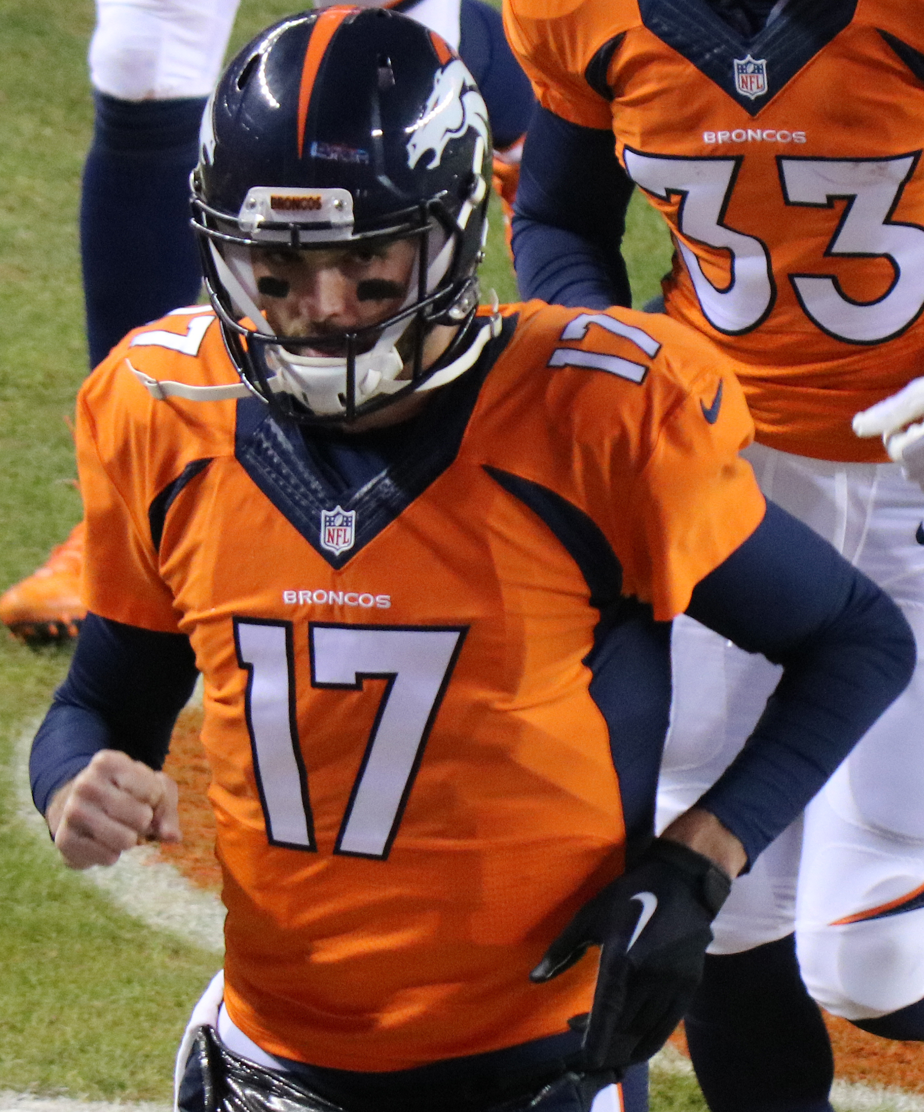 Brock Osweiler, a player on the National Football League.